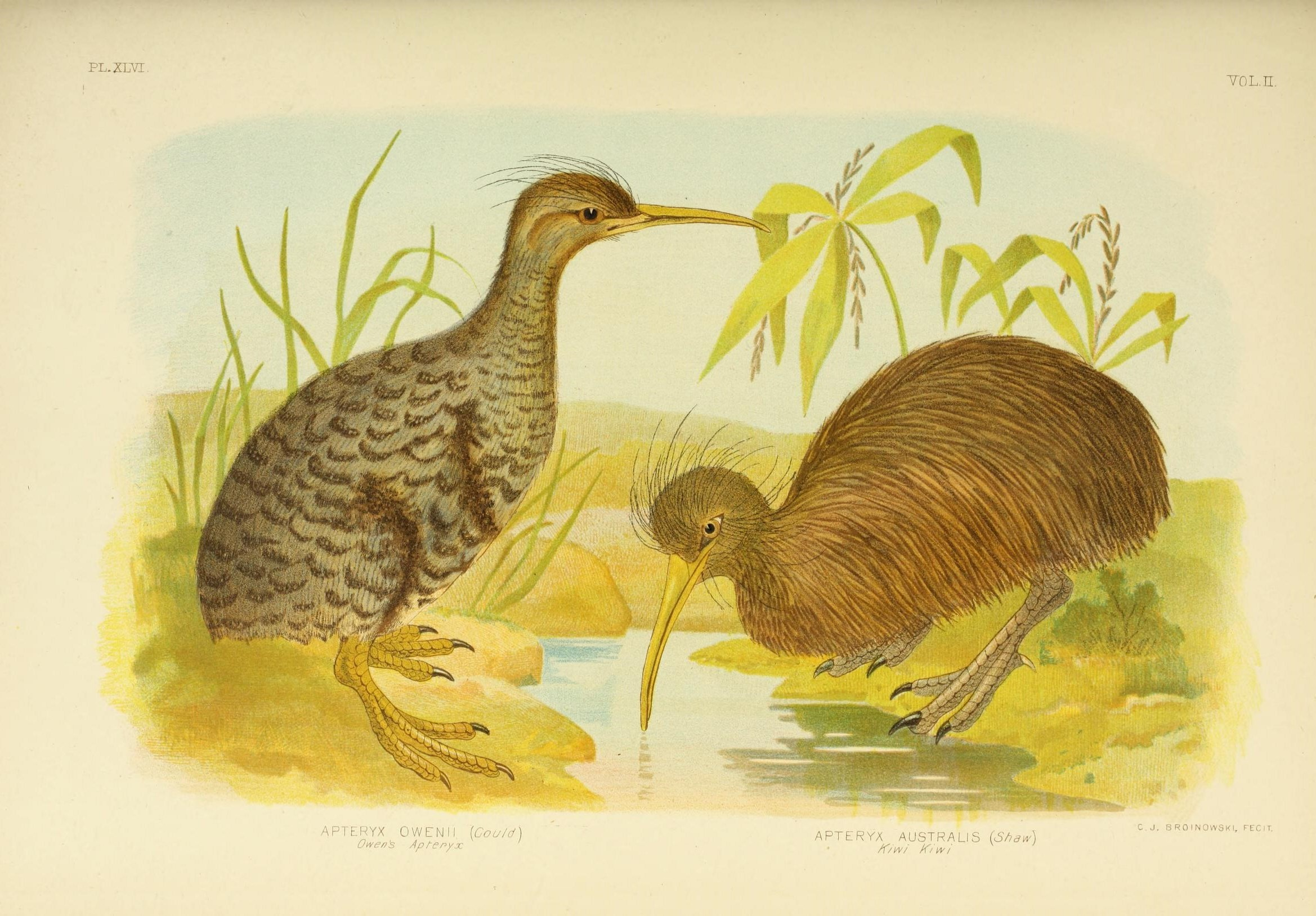 The birds of Australia